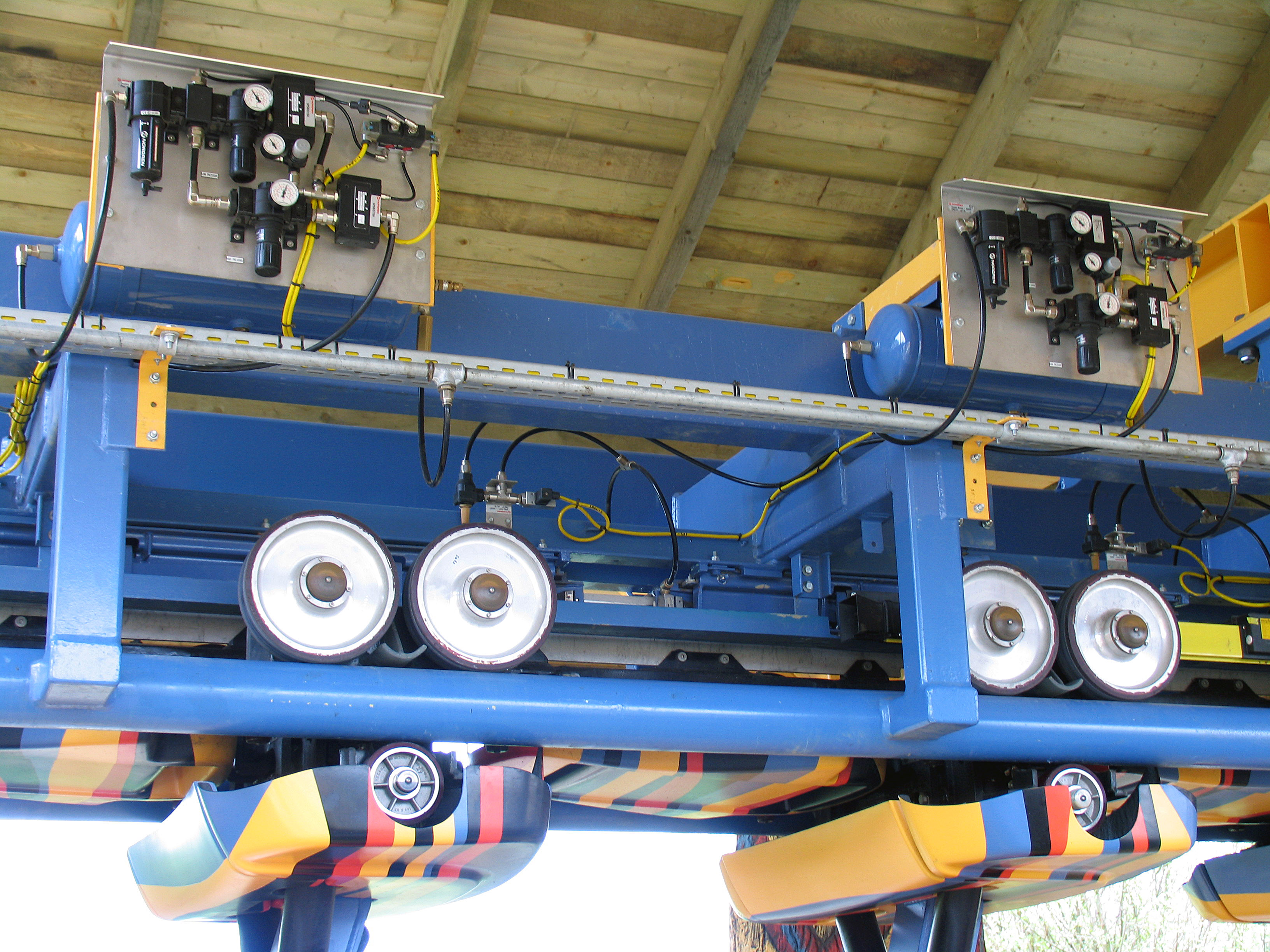 Wheels and Brakes of SLC Kumali at Flamingoland